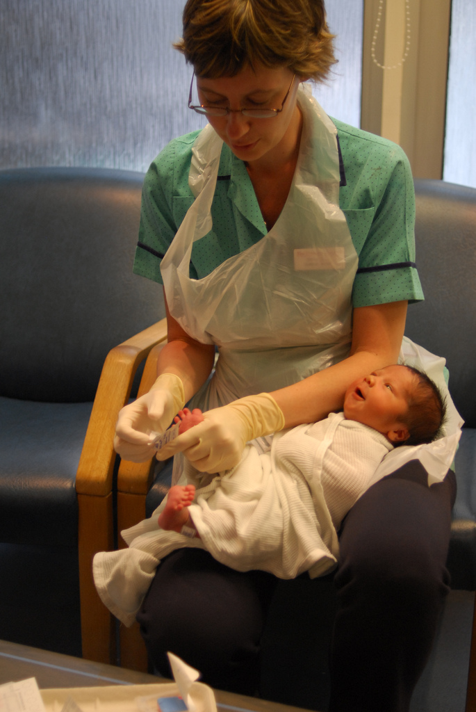 A British nurse in 2006.